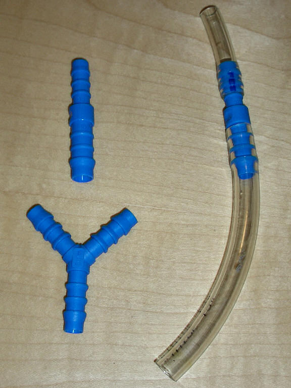 A connector for hoses used in watercooled PCs